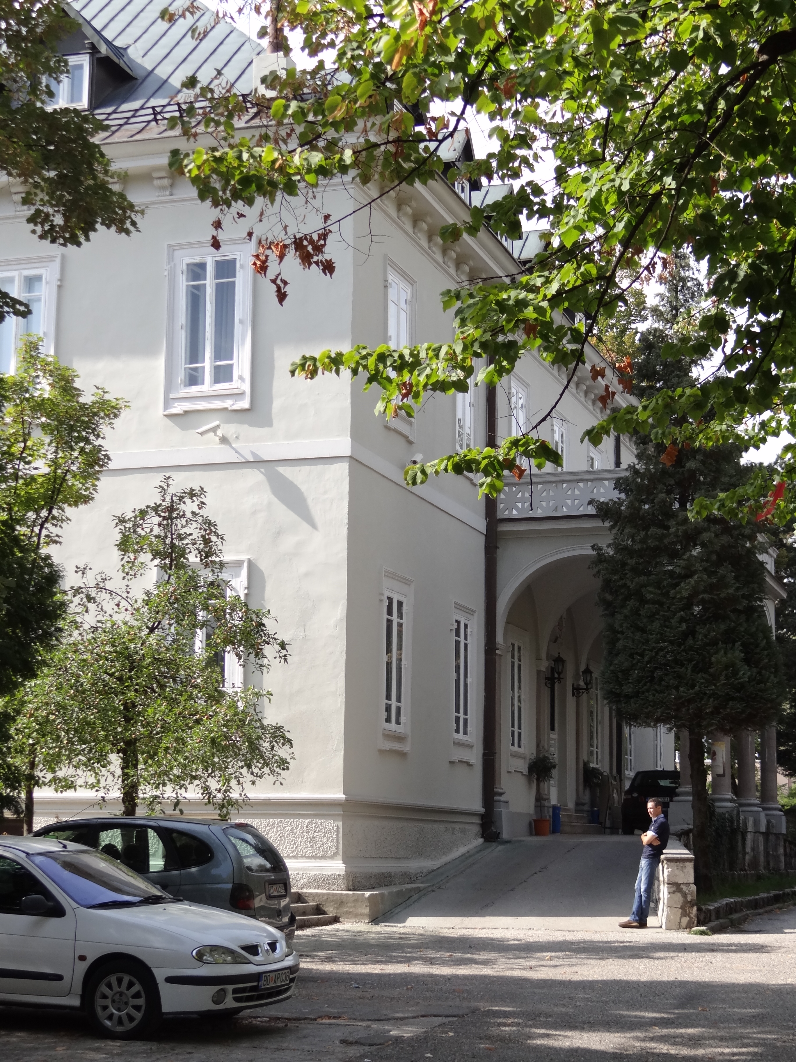 Former Italian Embassy Building - Cetinje - Montenegro